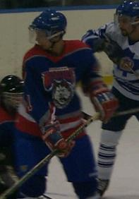 Released images of 1998 game between the Durham Huskies and Markham Waxers.